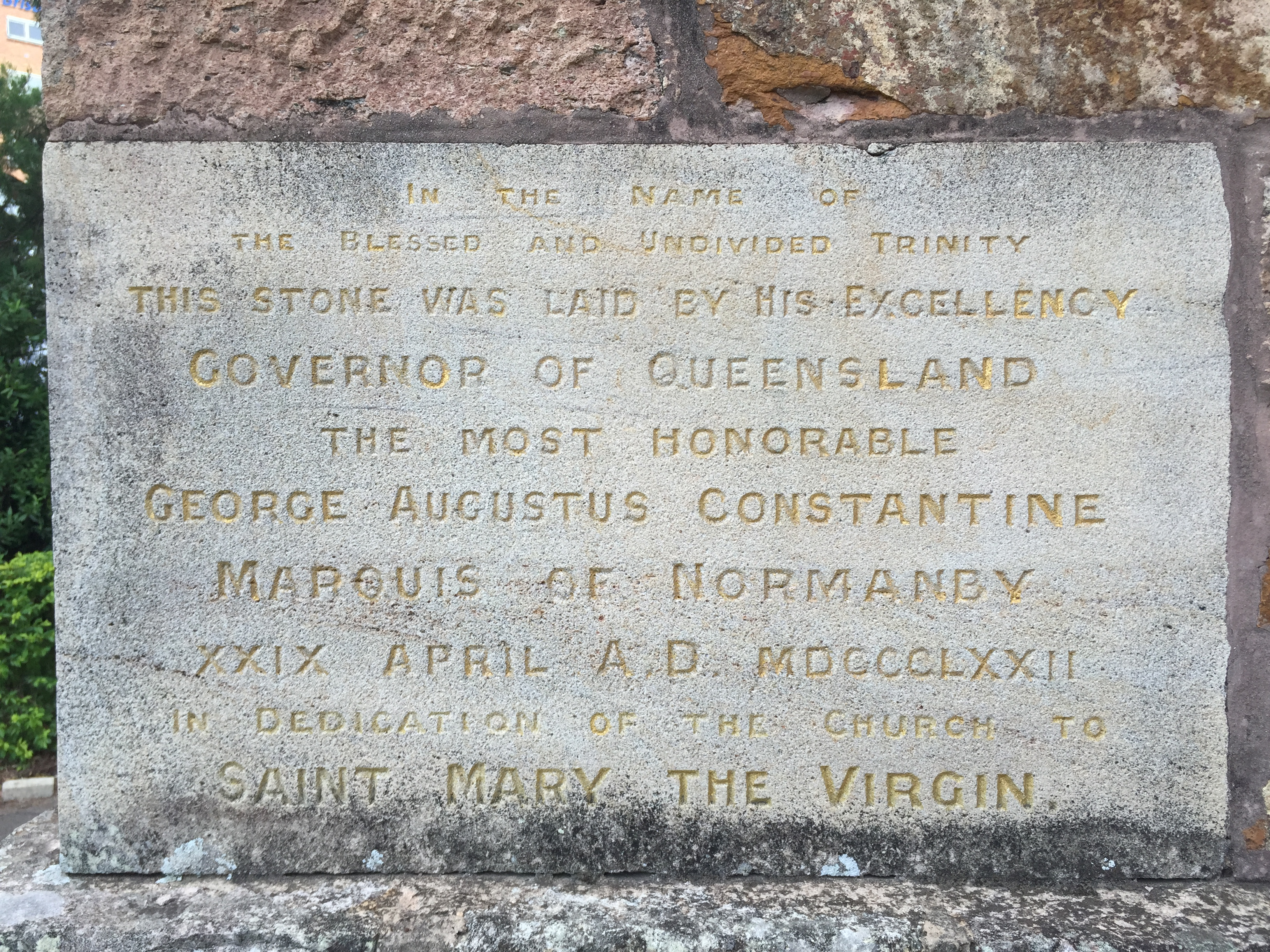 Corner stone of the Saint Mary's Anglican Church, Brisbane